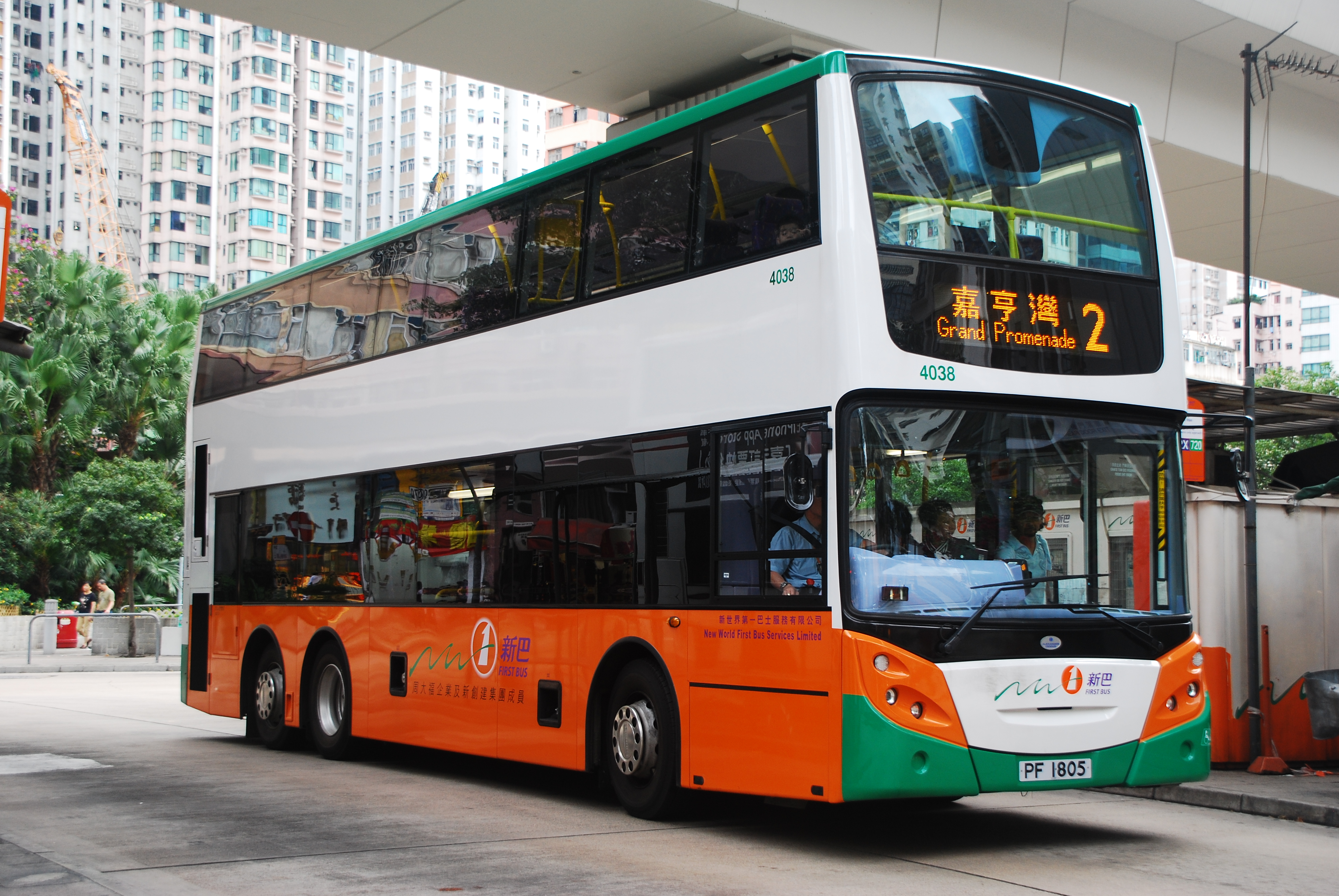 it was taken on 9/5/2010